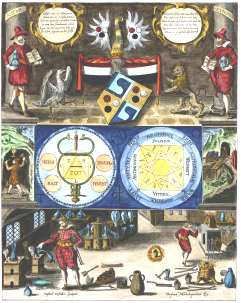 Engraving 1from Michelspacher Spiegel der Kunst und Natur, 1615.